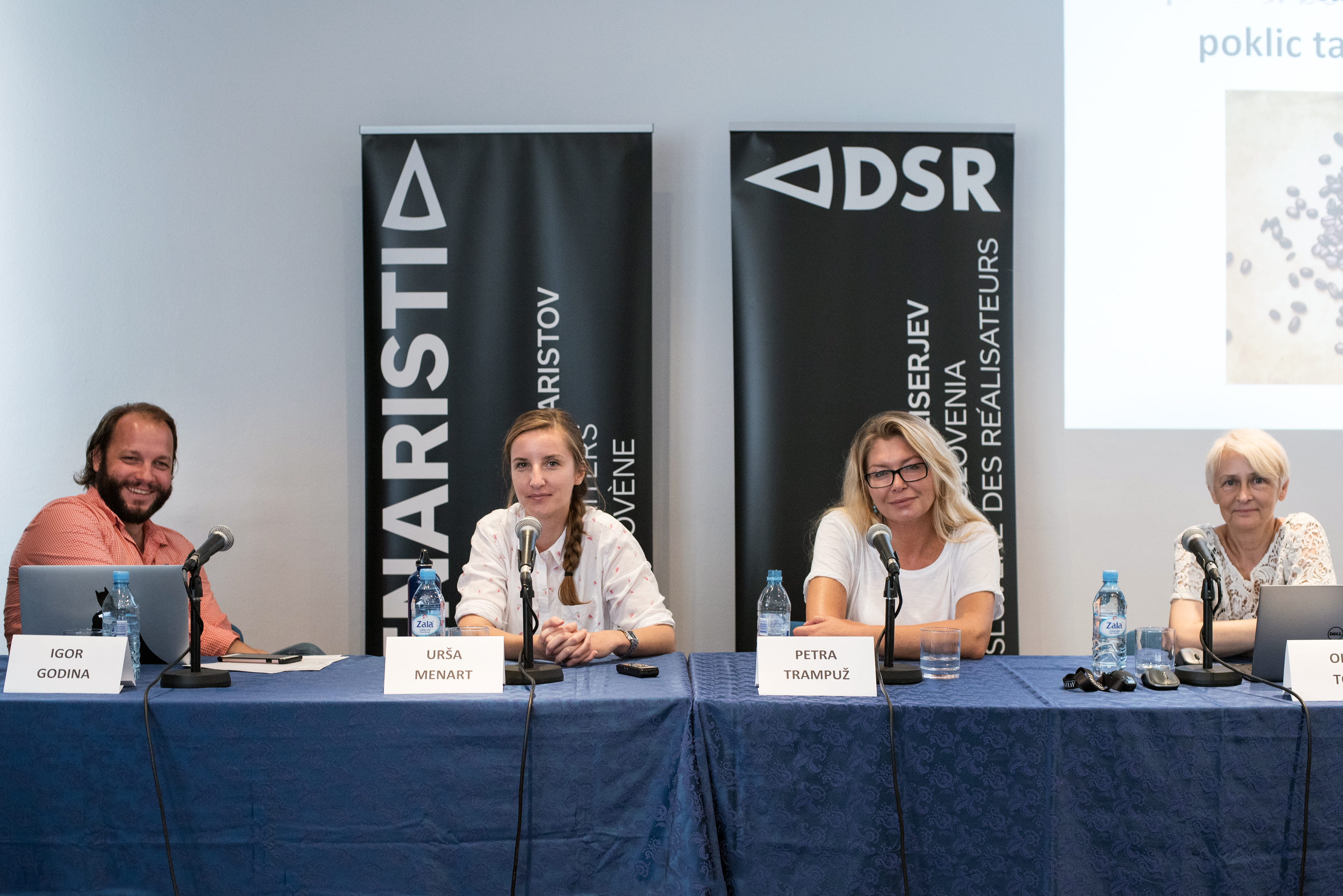 Od leve proti desni Igor Godina, Urša Menart, Petra Trampuž in Olga Toni